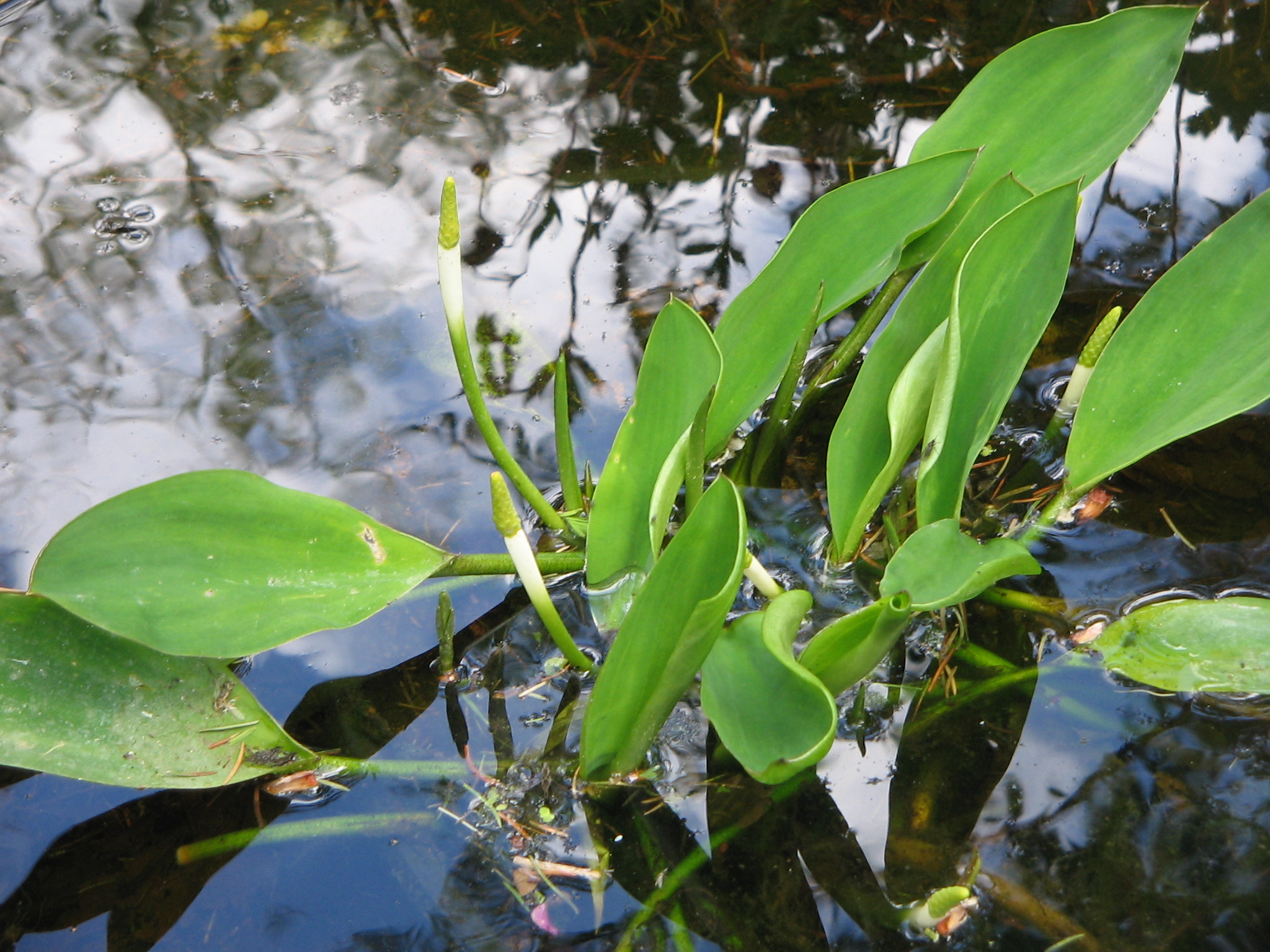 Orontium aquaticum opening